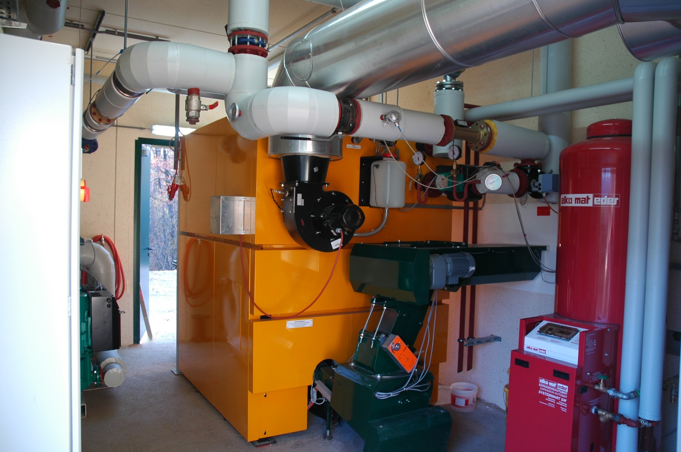 Biomass heating vessl made by KWB from Austria